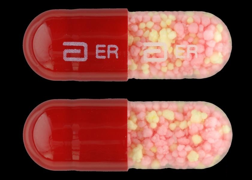 Drug Name: Erythromycin 250 MG Enteric Coated Capsule Ingredient(s): Erythromycin Drug Label Imprint: ER Color(s): Red Shape: Capsule Size (mm): 22.00 Score: 1 Inactive Ingredient(s): ShowHide cellulosic polymers / citrate ester / d&c red no. ... cellulosic polymers / citrate ester / d&c red no. 30 / d&c yellow no. 10 / magnesium stearate / povidone / fd&c blue no. 1 / fd&c red no. 3 / gelatin / titanium dioxide Drug *Label Author: Abott Laboratories DEA Schedule: Non-scheduled